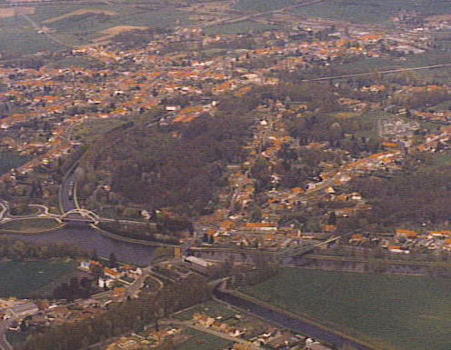 aerial view of the junction of the Blaton-Ath Canal & the Nimy-Blaton-Péronnes Canal at Blaton (Belgium)""